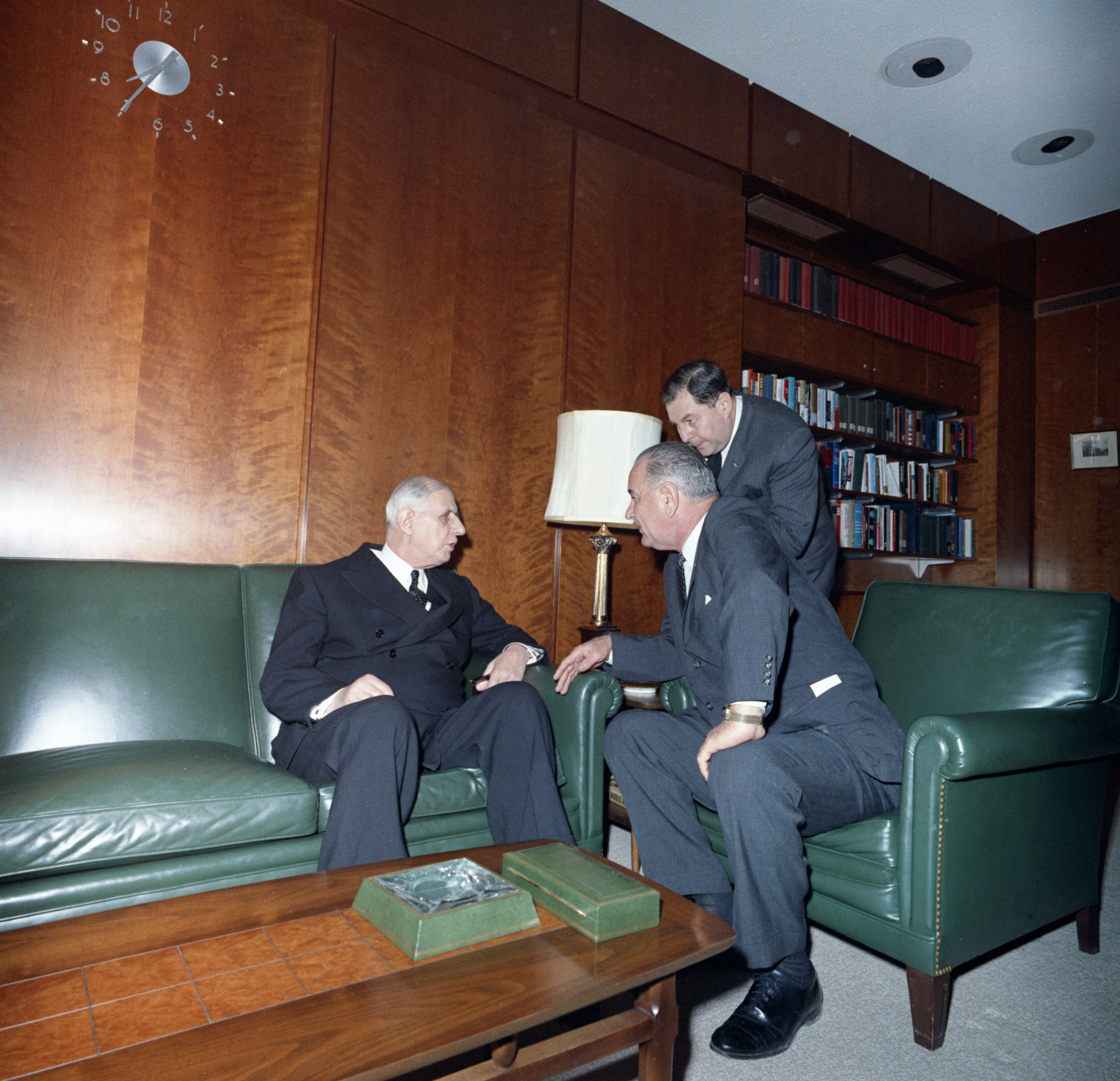 U.S. President Lyndon B. Johnson (r.) meets with President of France Charles de Gaulle shortly after taking office